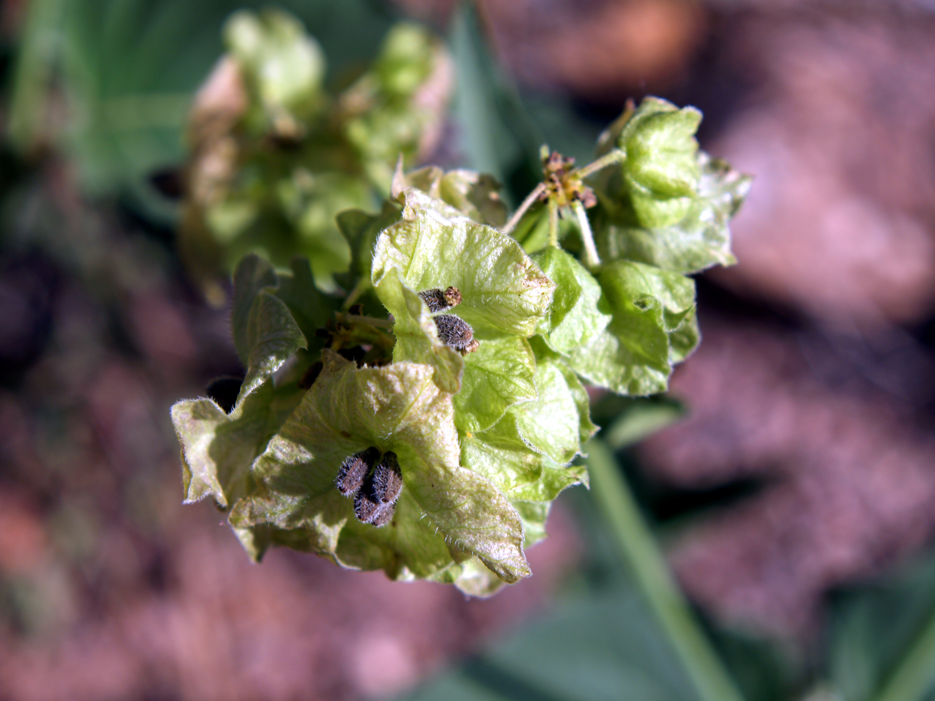 Mirabilis nyctaginea at Wind Cave National Park, South Dakota, USA